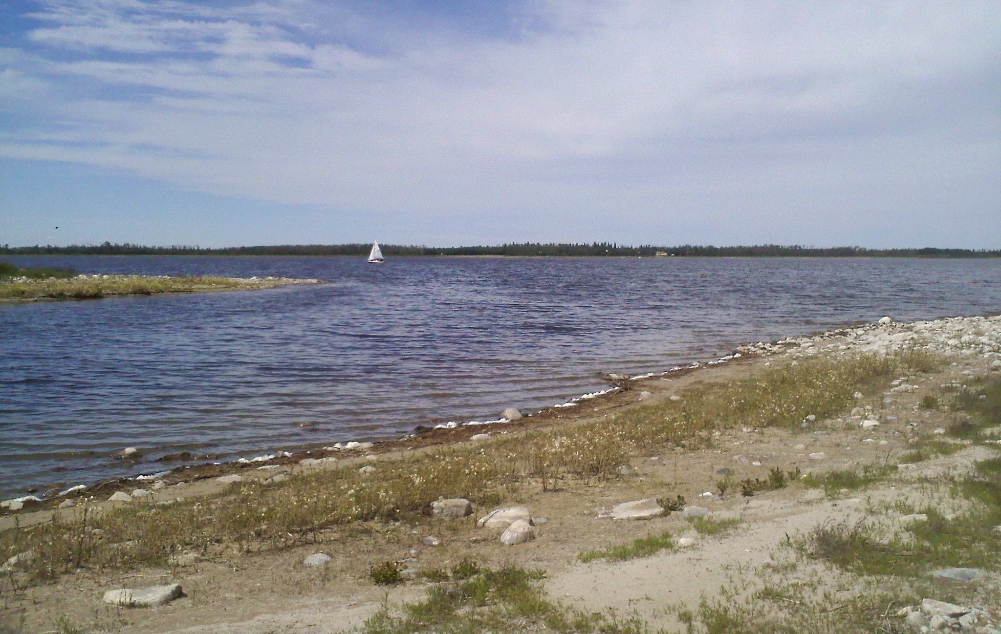 Hastings Lake from the Hamlet of Hastings Lake, Alberta.